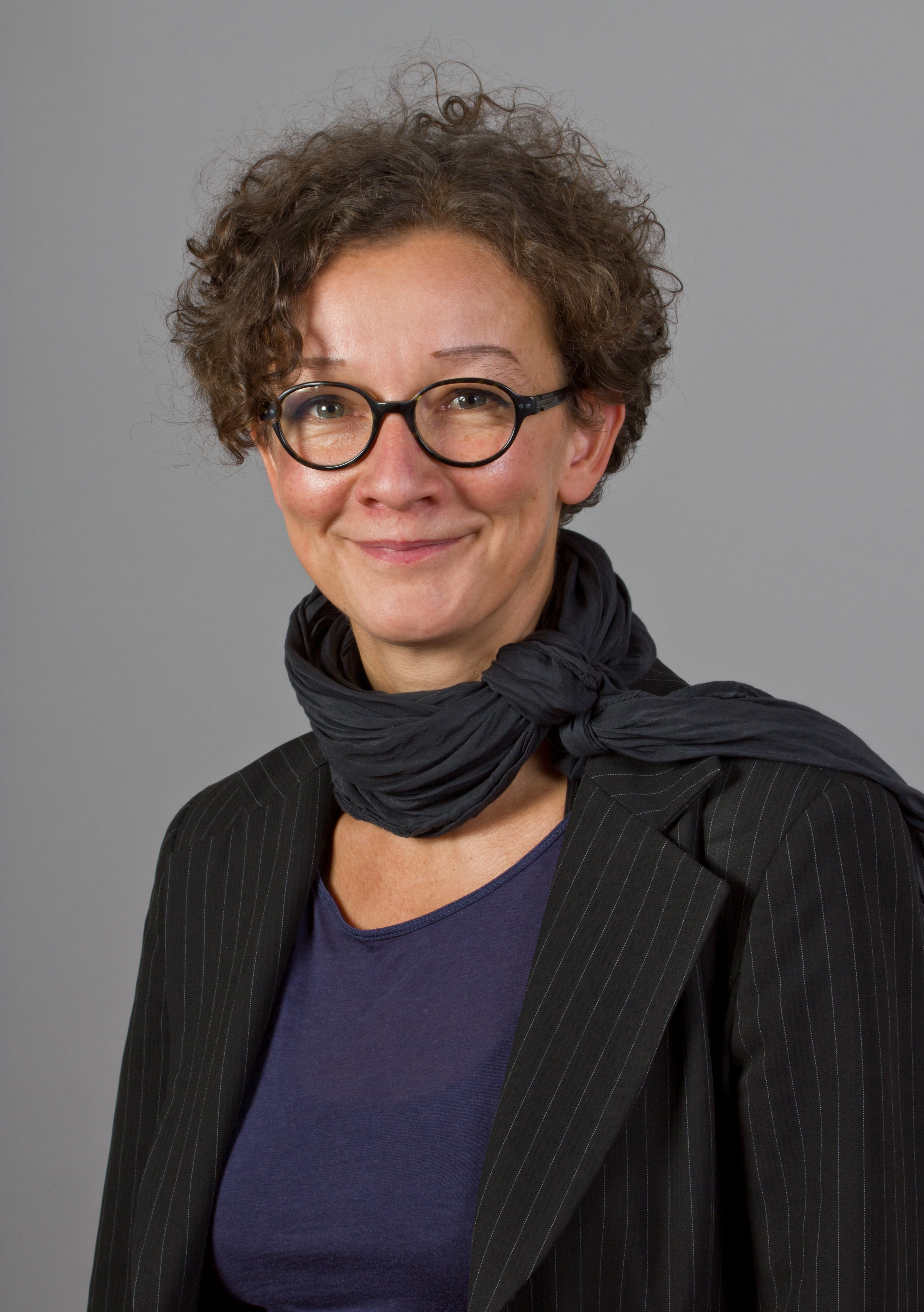 Katrin Seidel (then Katrin Möller), politician from Germany, member of Abgeordnetenhaus of Berlin (as of 2013)